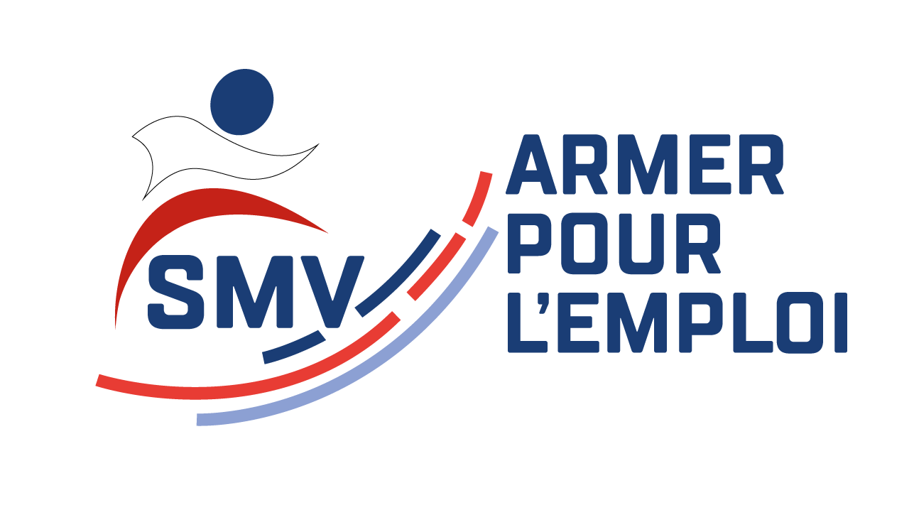 SMV Military volontaria service